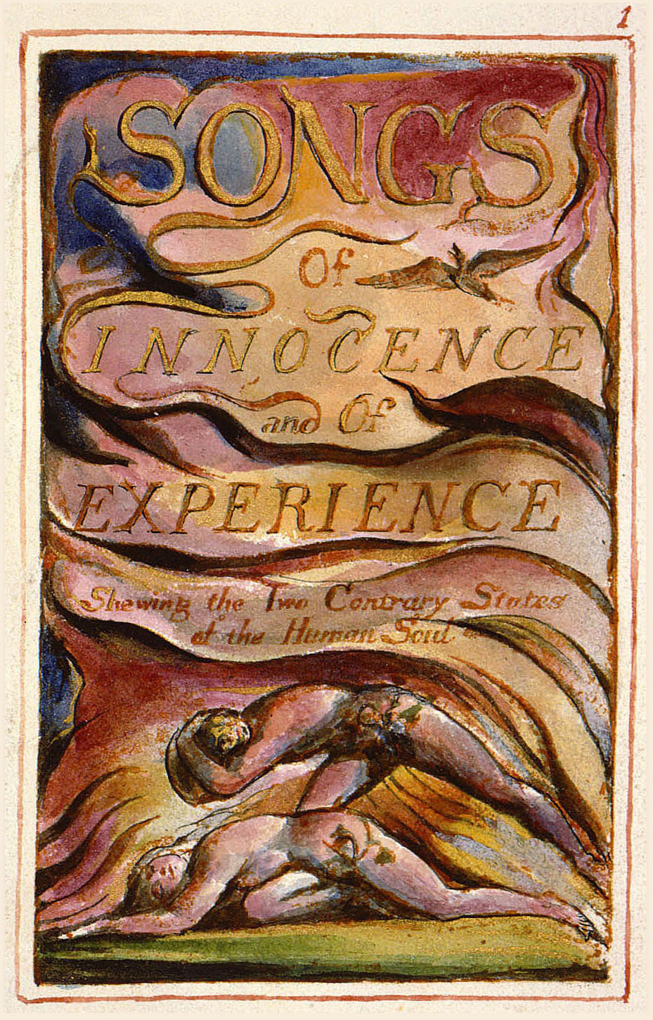 Songs of Innocence and of Experience, copy AA, object 1 (Bentley 1, Erdman 1, Keynes 1) "General Title Page"